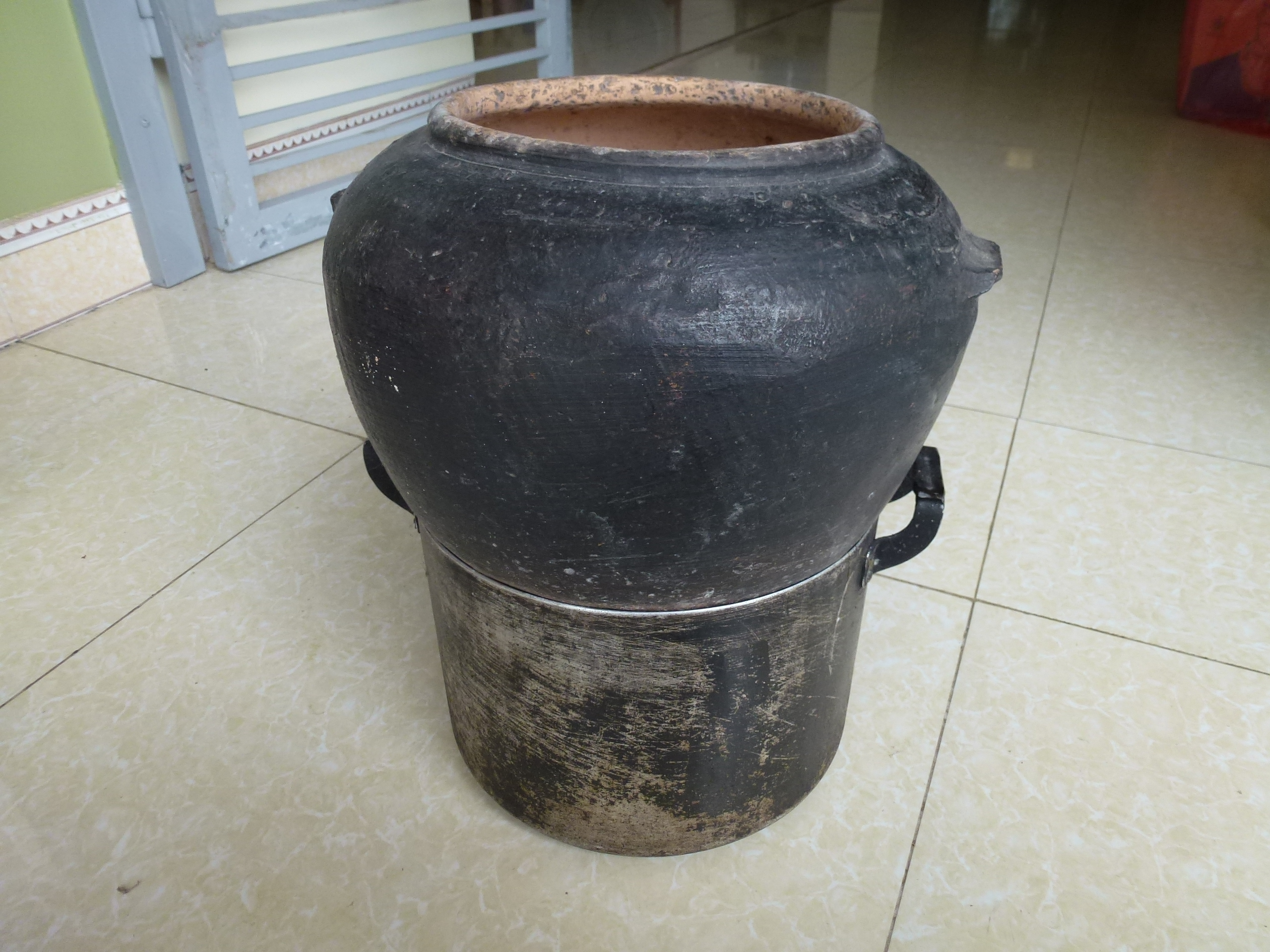 Traditional xôi cooker 2 - Viet Nam